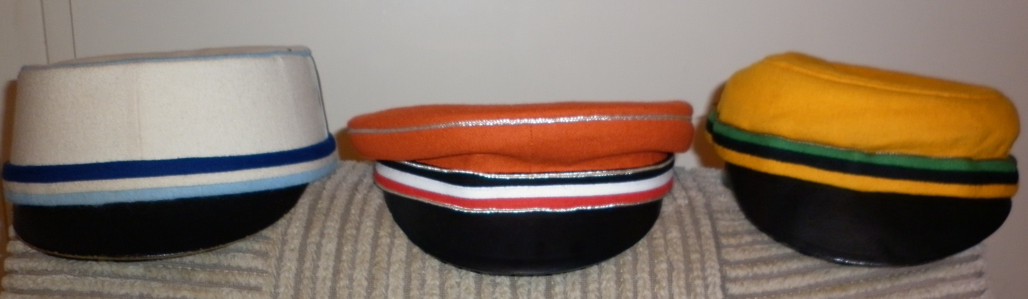 Caps, from left to right: Sängerschaft zu St. Pauli Jena et Burgundia Breslau in Münster (Biedermeierformat), Freie Burschenschaft Schlägel und Eisen Clausthal-Zellerfeld (Tellermütze), Sängerschaft Rheno-Silesia Clausthal-Zellerfeld (Biedermeierformat)